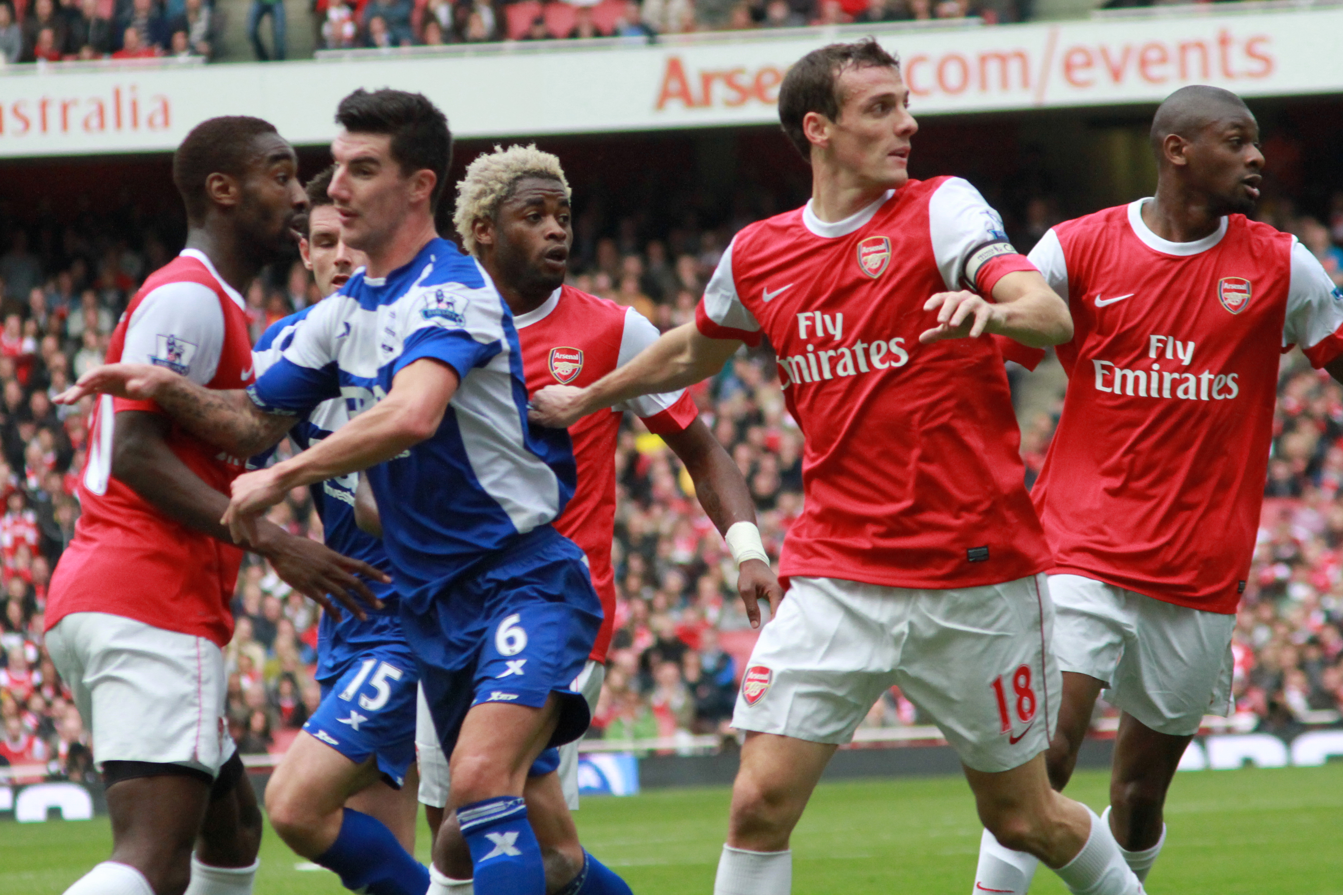 Arsenal v Birmingham City The Emirates 16 October 2010 (2-1)